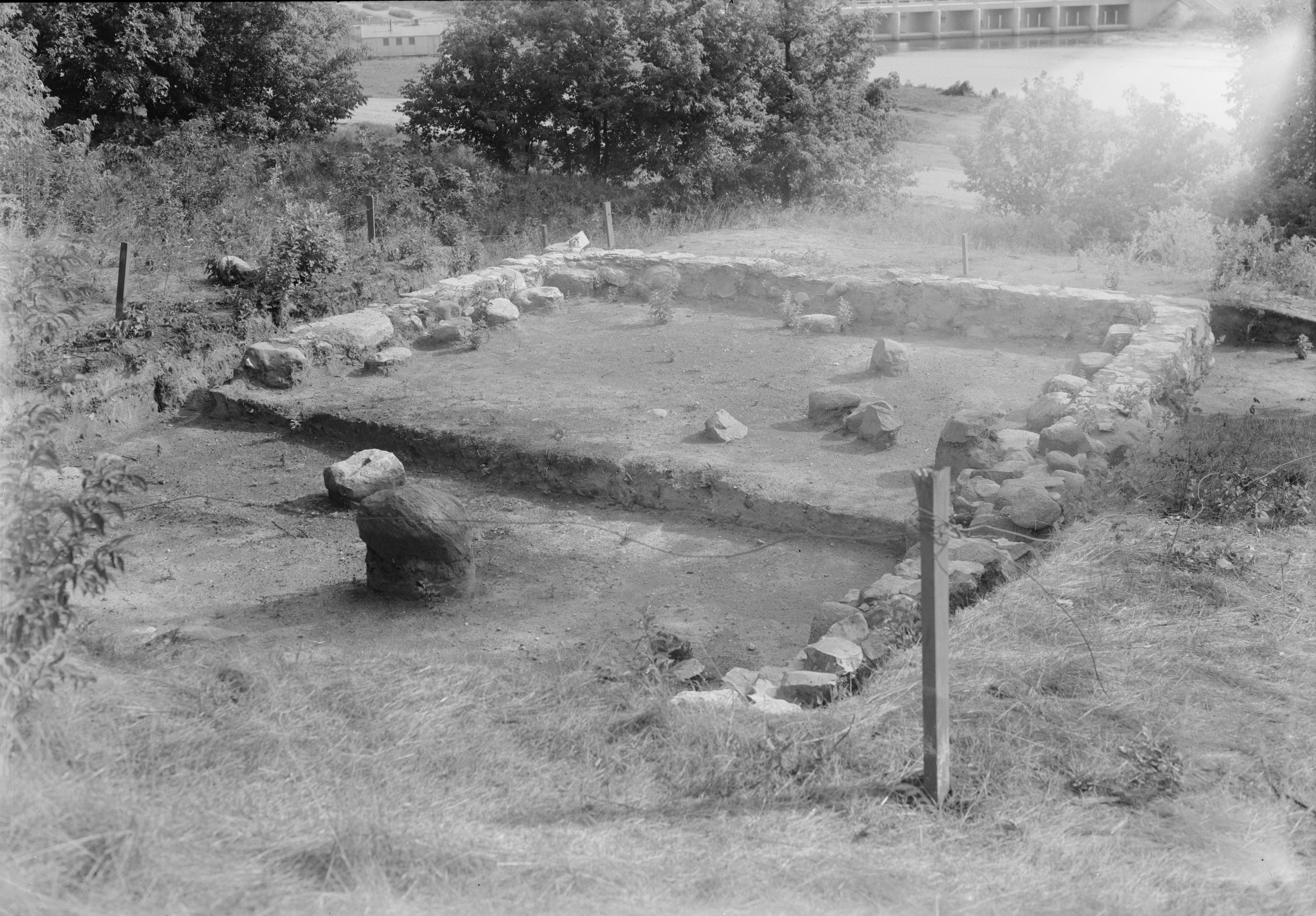 Lac Qui Parle Mission Church (Ruins), Watson vicinity, Chippewa County, MN. View of foundation from North.